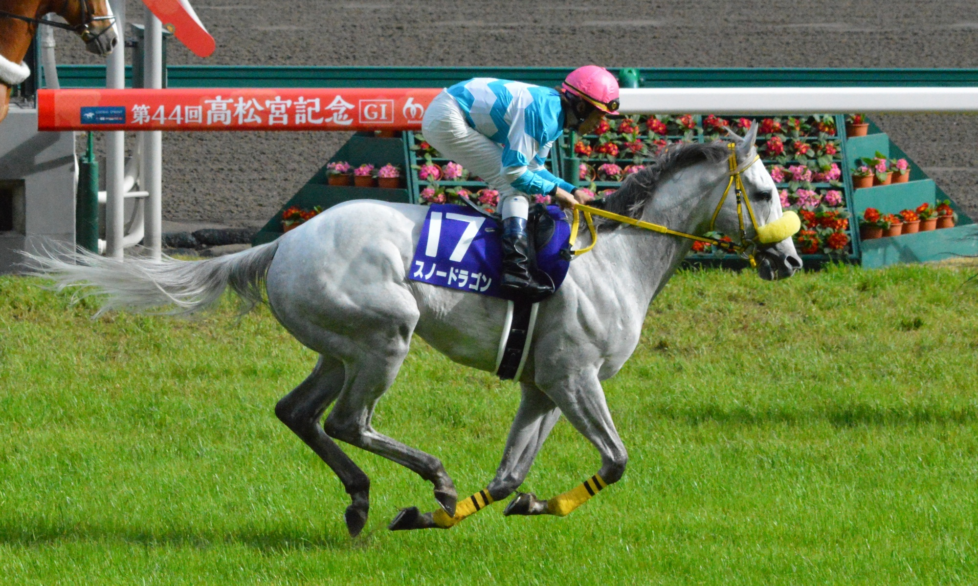 Japanese race horse Snow Dragon at Chukyo racecourse. Chukyo (JPN) 30 Mar 2014 Takamatsunomiya Kinen (Grade 1) (4yo+) (Turf) 6f Soft RankHorse NameOddsAgeWgtTrainerJockey1stCopano Richard (JPN)67/10C49-0Toru MiyaMirco Demuro2ndSnow Dragon (JPN)186/10H69-0Noboru TakagiTakuya Ono3rdStraight Girl (JPN)8/5FM58-9Hideaki FujiwaraYasunari Iwata4th-18th/omission